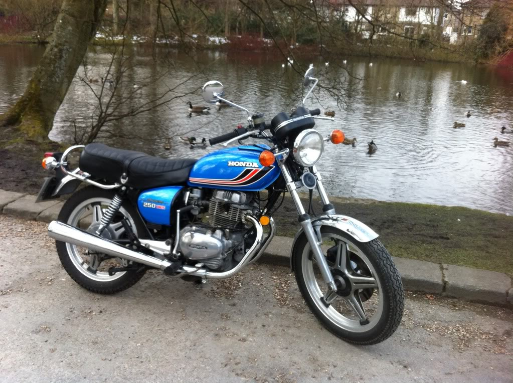 Honda CB250T 1977